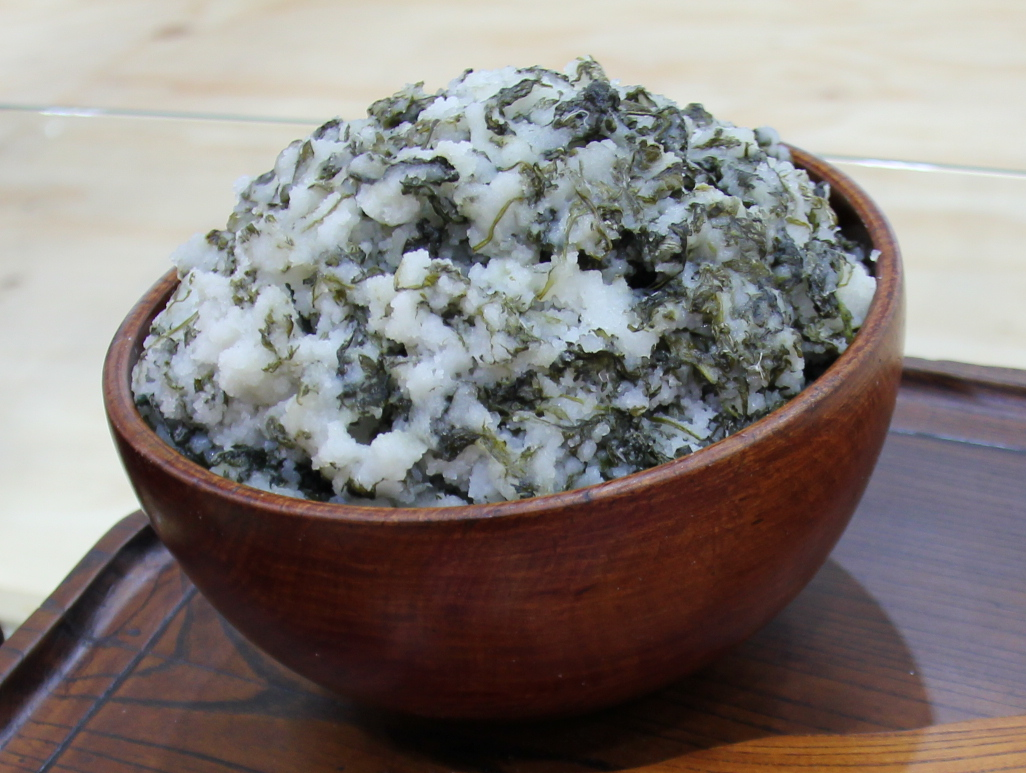 tteok, Korean rice cake